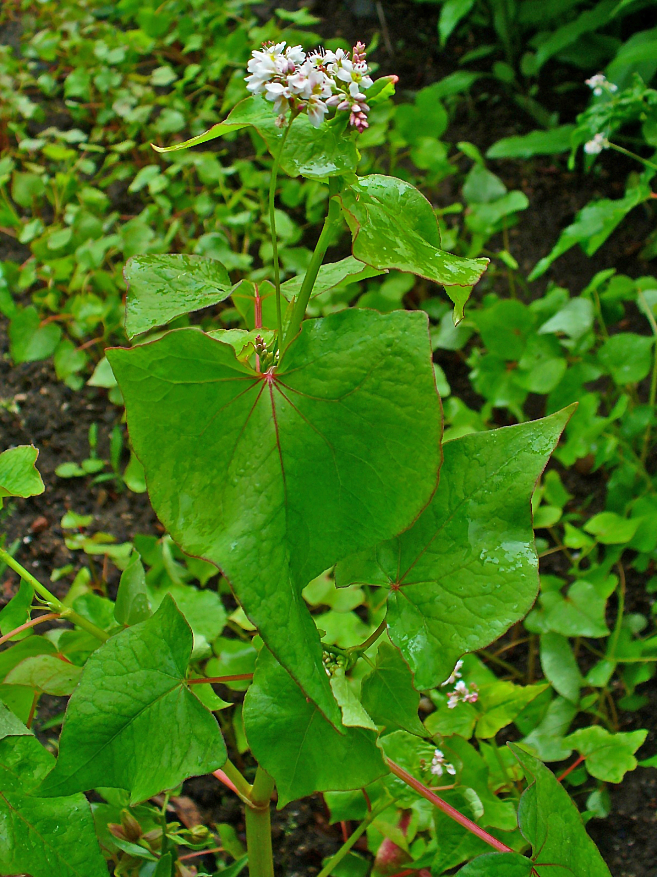 Fagopyrum esculentum, Polygonaceae, Buckwheat, habitus; Botanical Garden KIT, Karlsruhe, Germany. The plant is used in homeopathy as remedy: Fagopyrum (Fago.)